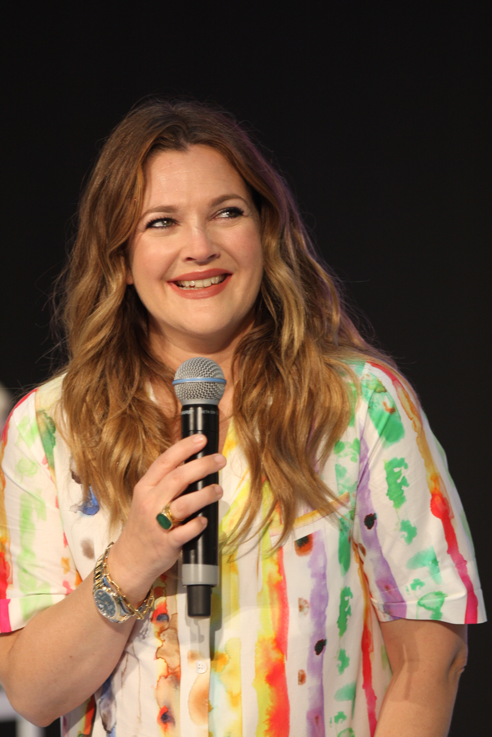 Actress Drew Barrymore in Australia in March, 2019.